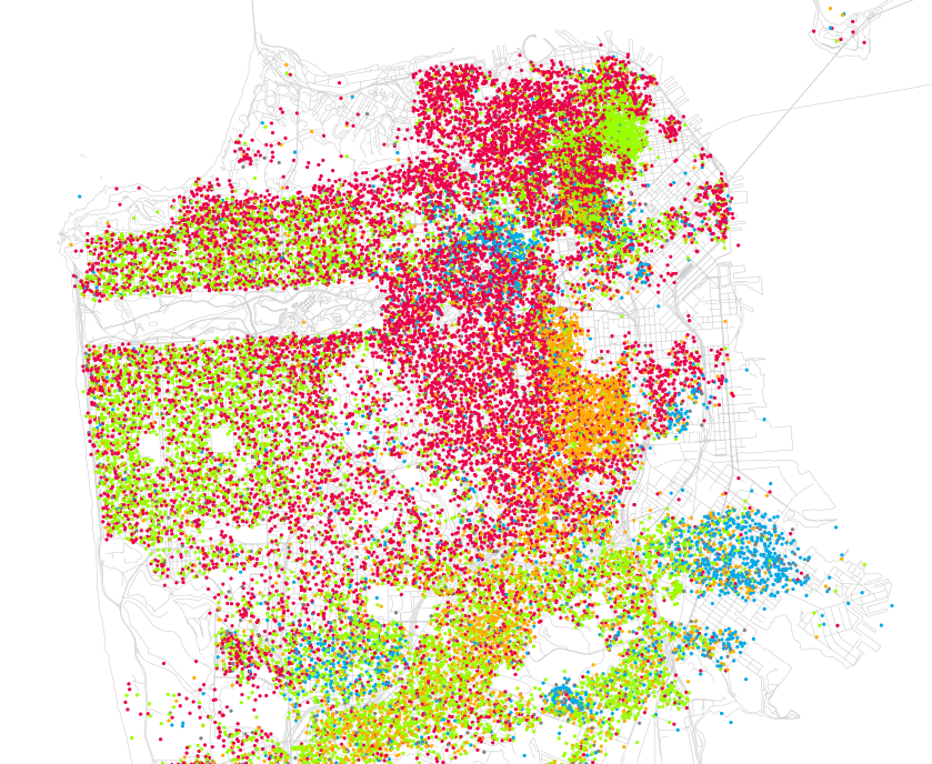 [Eric Fisher] was astounded by Bill Rankin's map of Chicago's racial and ethnic divides and wanted to see what other cities looked like mapped the same way. To match his map, Red is White, Blue is Black, Green is Asian, Orange is Hispanic, Gray is Other, and each dot is 25 people. Data from Census 2000. Base map © OpenStreetMap, CC-BY-SA